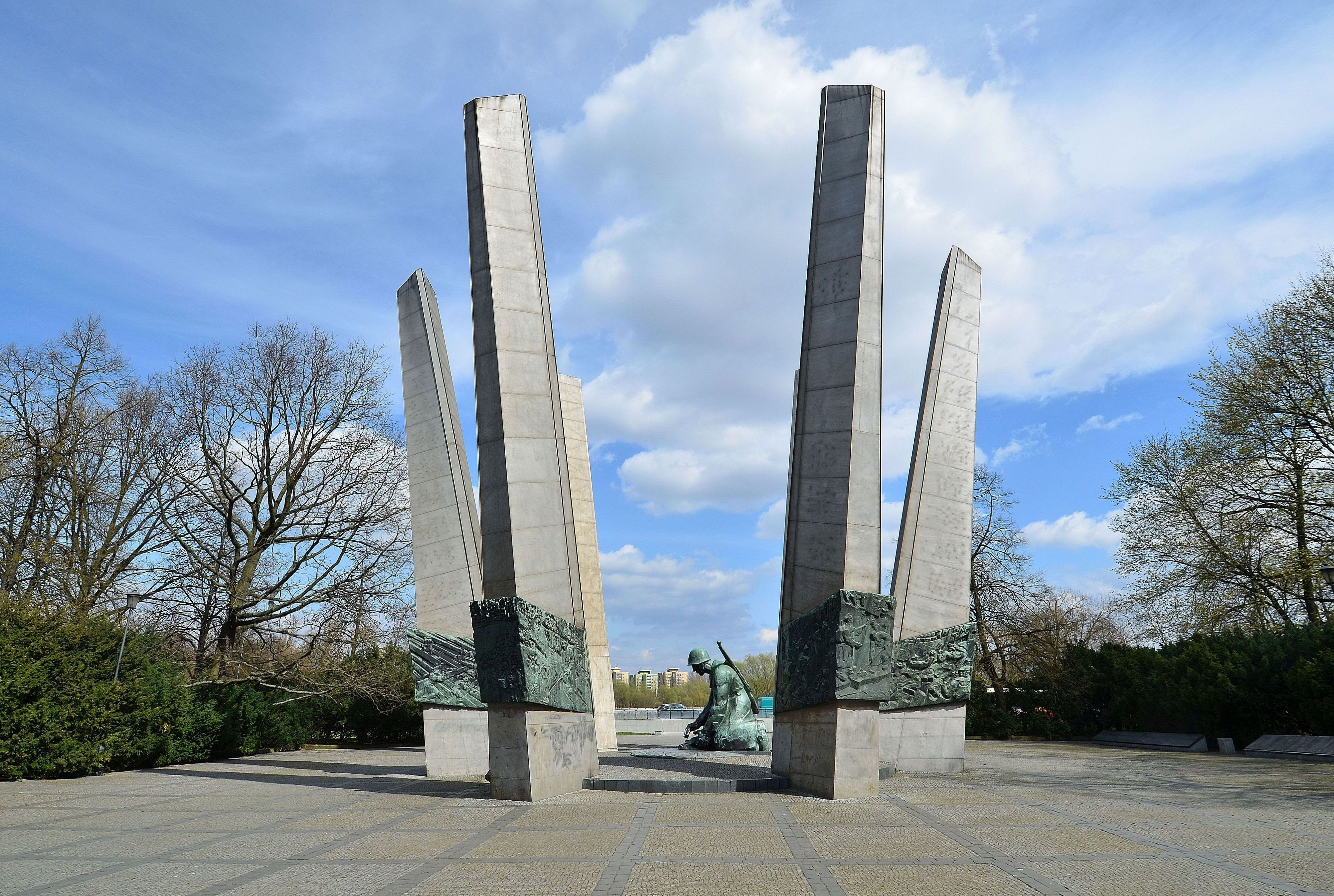 Chwała Saperom Monument in Warsaw